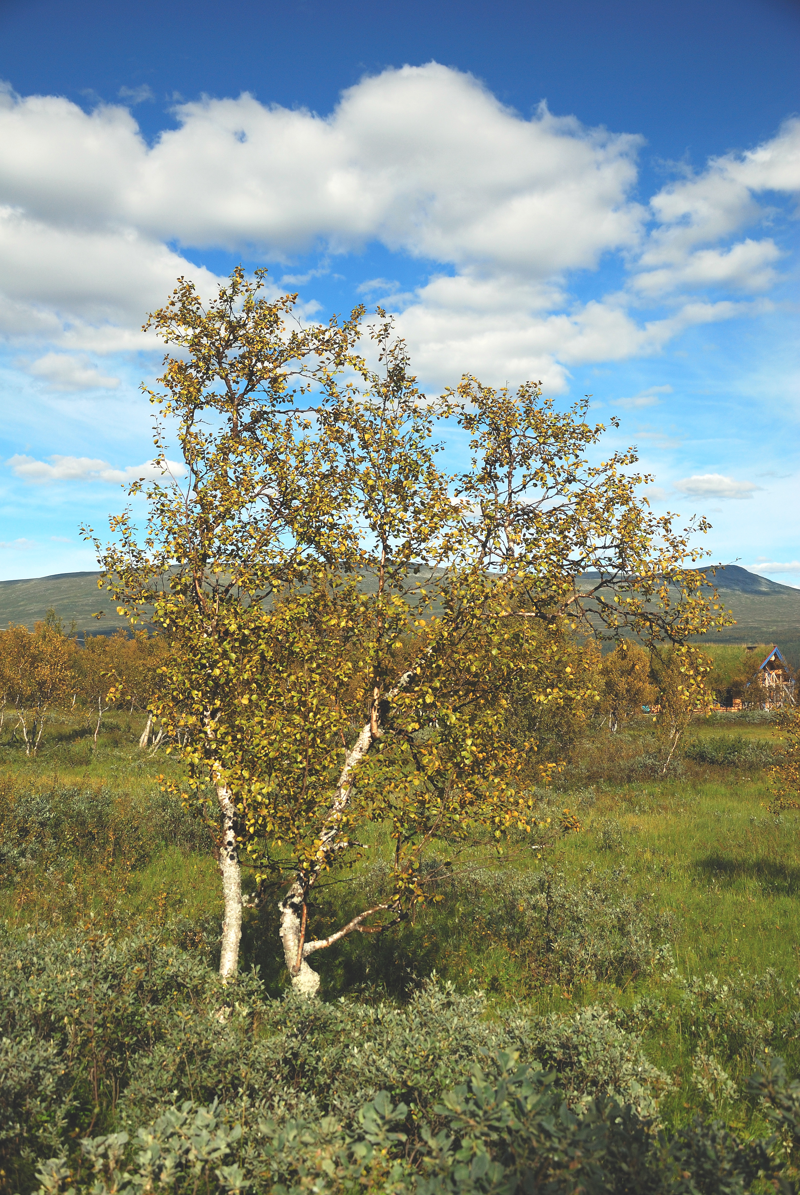 Betula pubescens ssp. tortuosa in Ljungdalen August 2011.